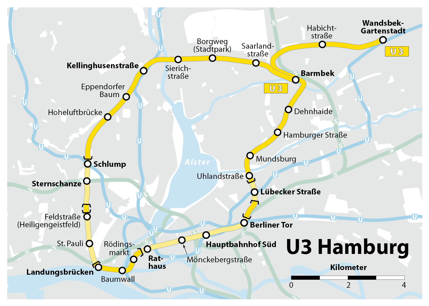 Map of Hochbahn Hamburg route U1